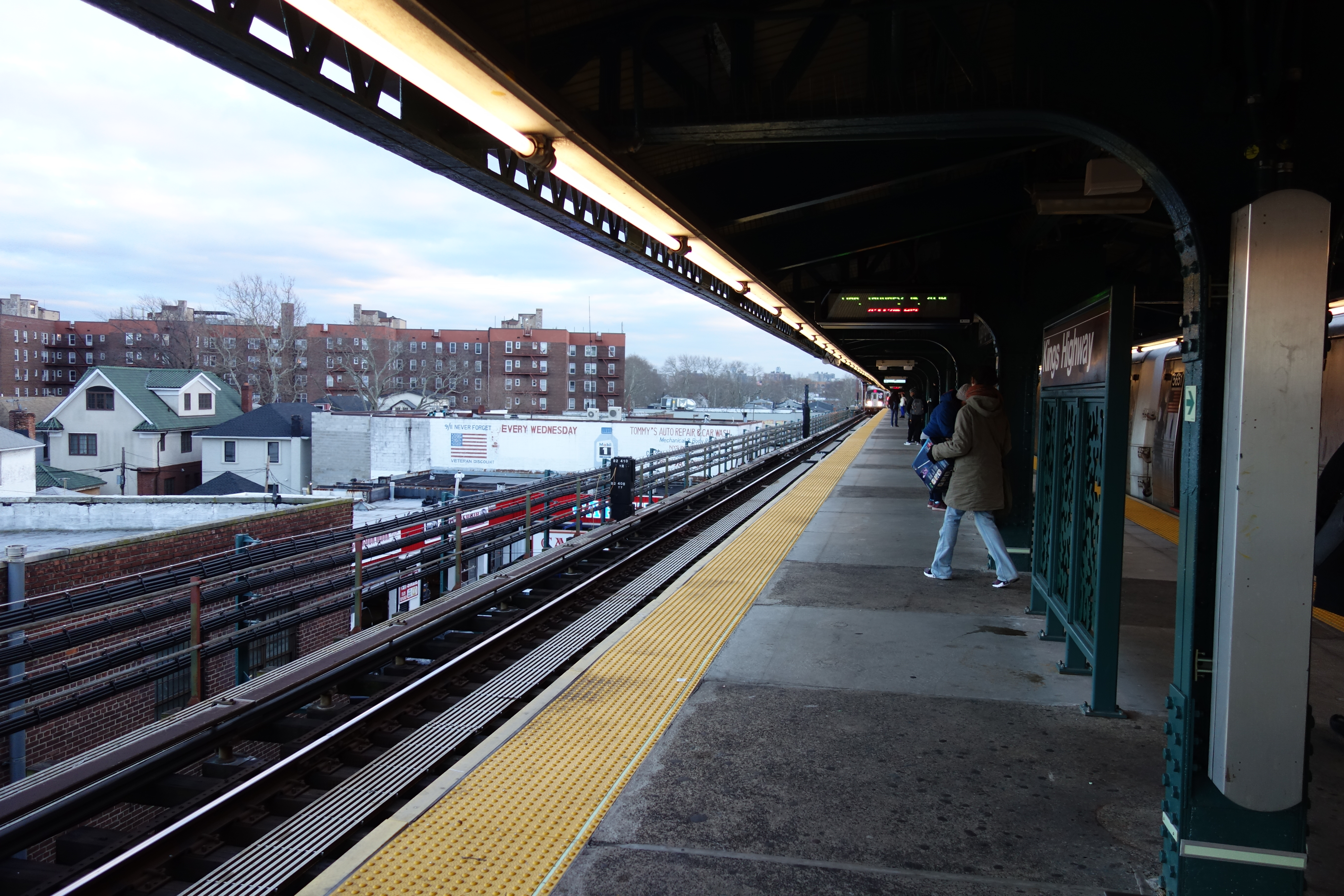 Looking south along the local track on the Manhattan-bound platform of the Kings Highway Culver station, above Kings Highway and McDonald Avenue in Gravesend, Brooklyn.